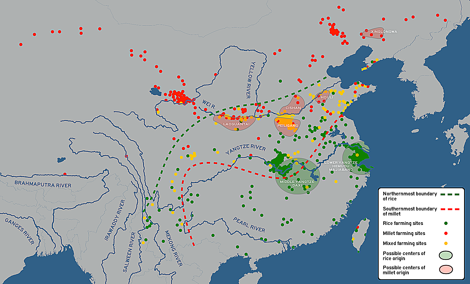 Spatial distribution of rice, millet and mixed farming sites with a boundary of rice and millet and possible centers of agriculture. Per: He, Keyang; Lu, Houyuan; Zhang, Jianping; Wang, Can; Huan, Xiujia (7 June 2017). "Prehistoric evolution of the dualistic structure mixed rice and millet farming in China". The Holocene. 27 (12): 1885–1898.